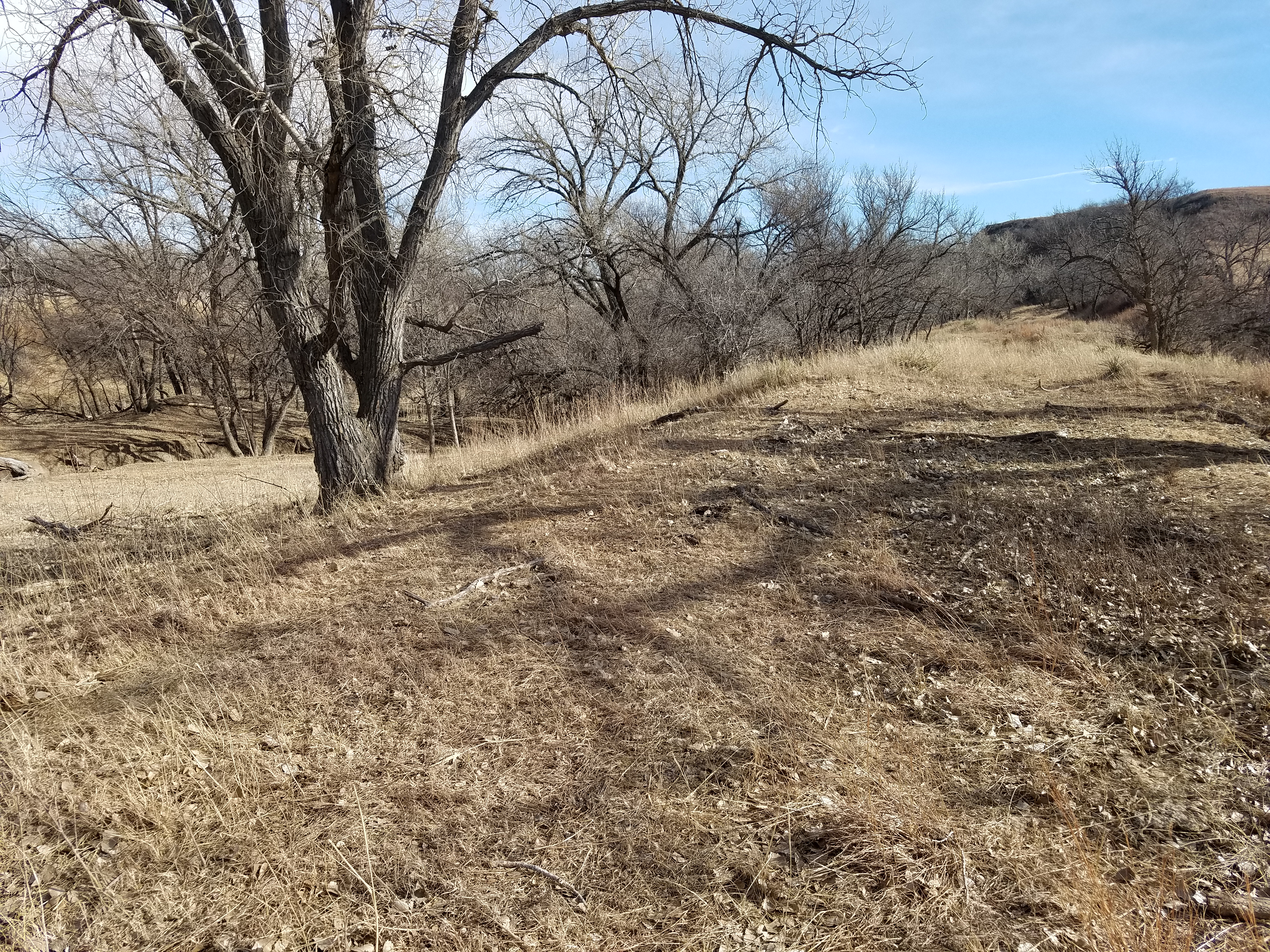 2016 reenactment of No. 51. The 'Hog Back' at Ellis, Kansas (Robert Benecke, 1873). We used to come out here on church youth hay rack rides.